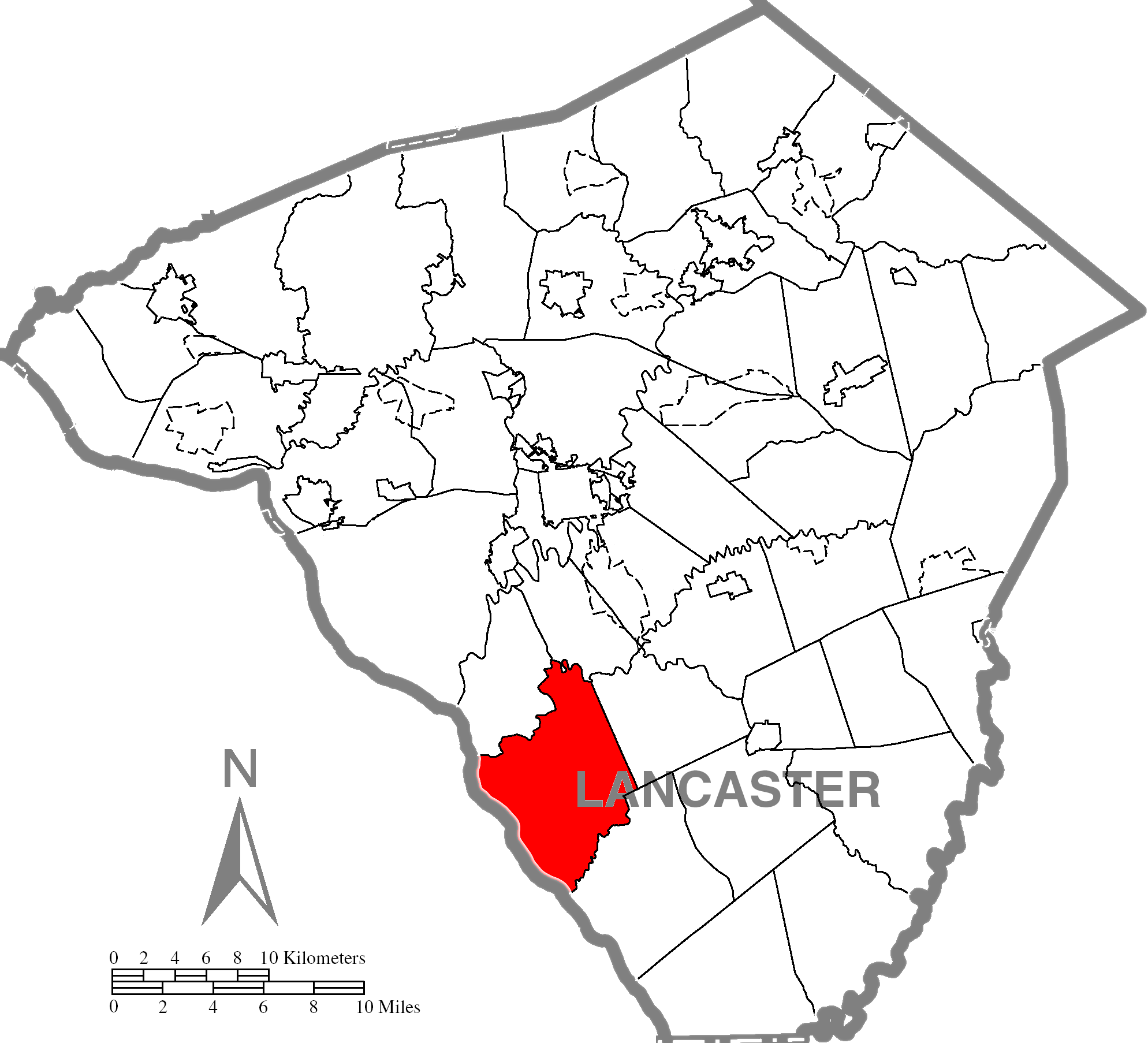 Highlighted Lancaster County map of Martic Township.